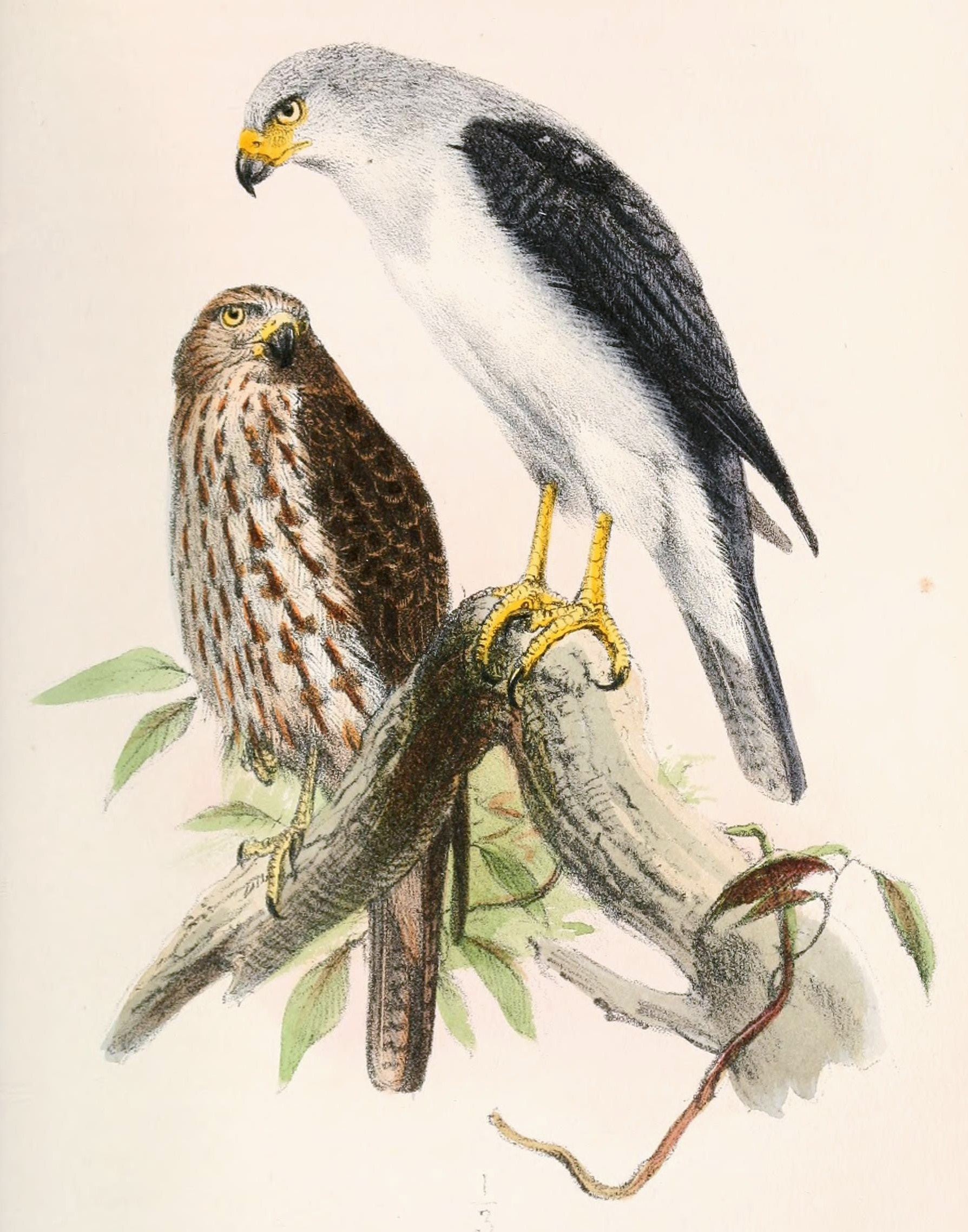 « Accipiter poliocephalus » = Accipiter poliocephalus (Grey-headed Goshawk) - adult and juvenile